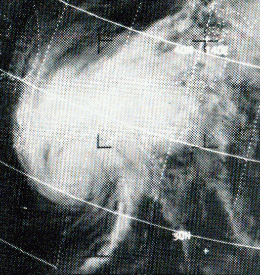 This ESSA 9 weather satellite image of Typhoon Helen was taken on September 16, 1972 at 0502 UTC